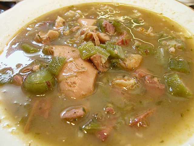 Signature gumbo from Bozo's Seafood Restaurant in Metairie, Louisiana. Photo by Jason Perlow